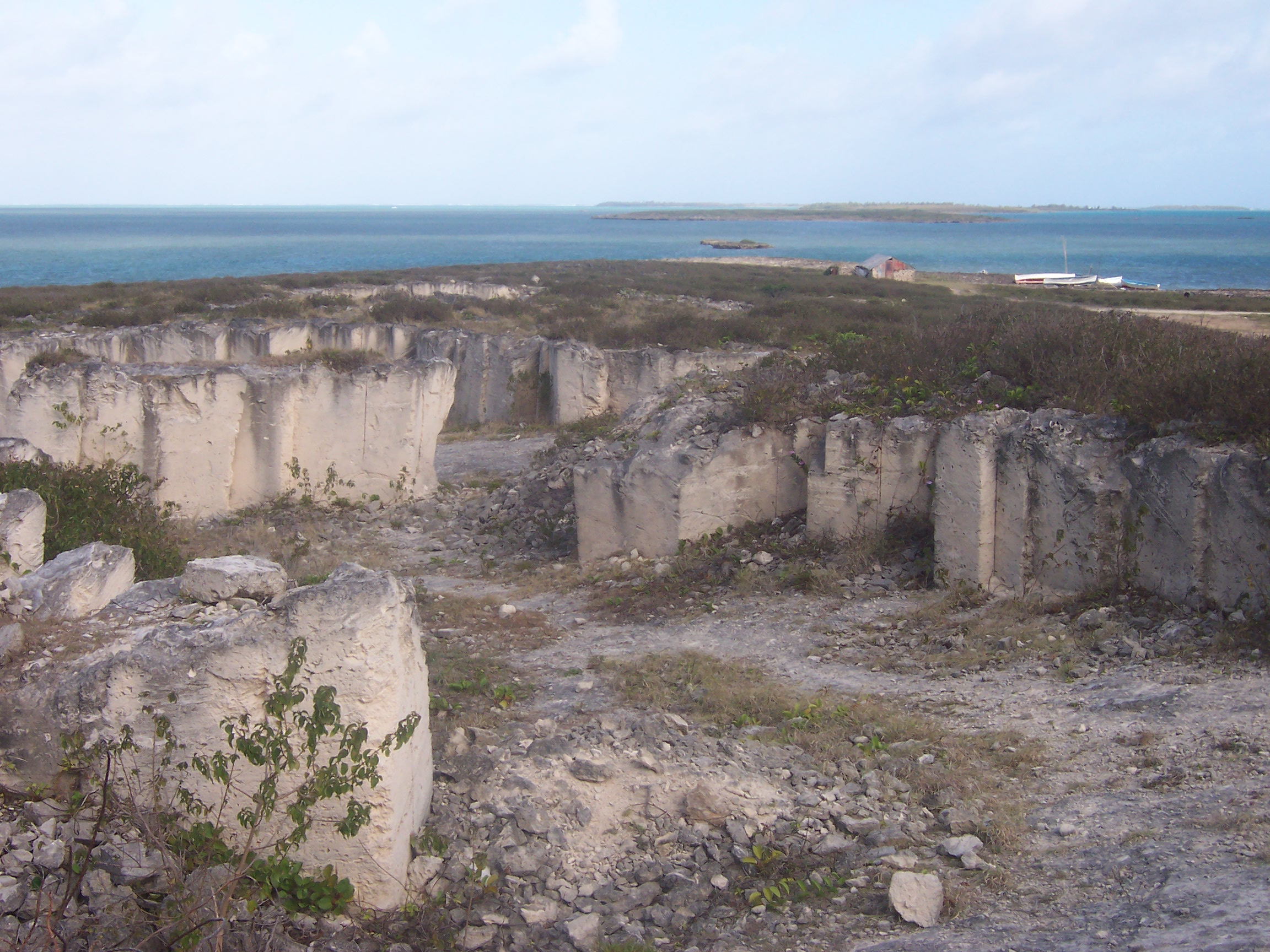 Former traditional calcarenite quarry of Rodrigues island